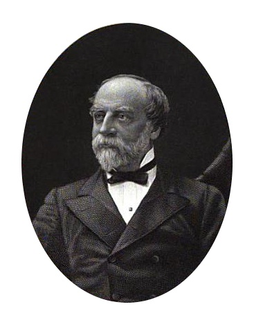 Massachusetts businessman and politician Alexander Hamilton Rice.